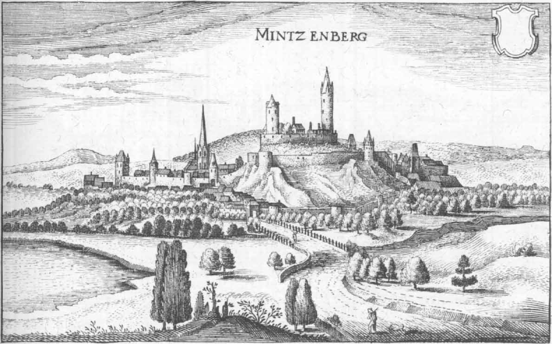 The Muenzenberg (Mintzenberg) castle and town in the Wetterau near Frankfurt am Main, Germany. View from south-western direction. Copper engraving done by Matthäus Merian.